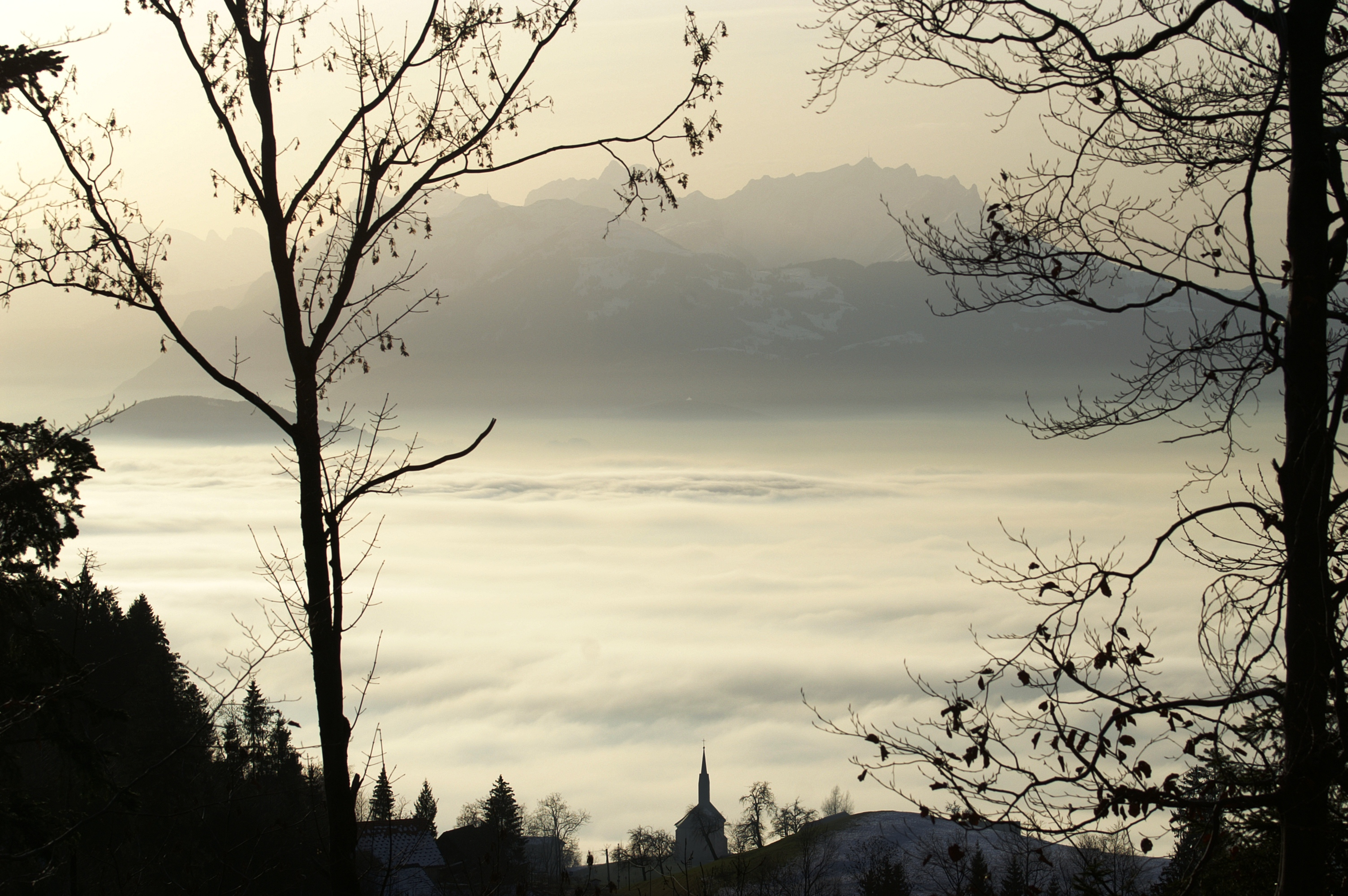 Fog. View from Oberfallenberg, Dornbirn district, towards the Mountains of Switzerland.